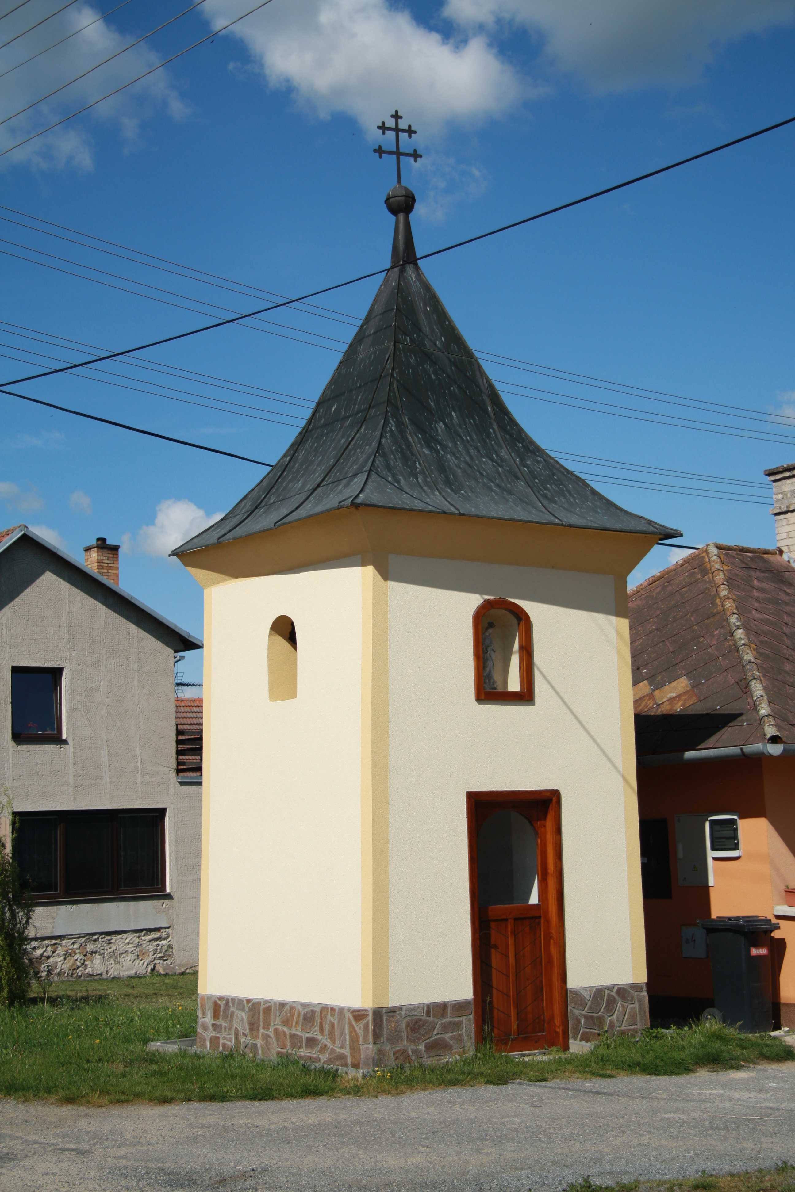 Chapel in Častotice, Třebíč District.